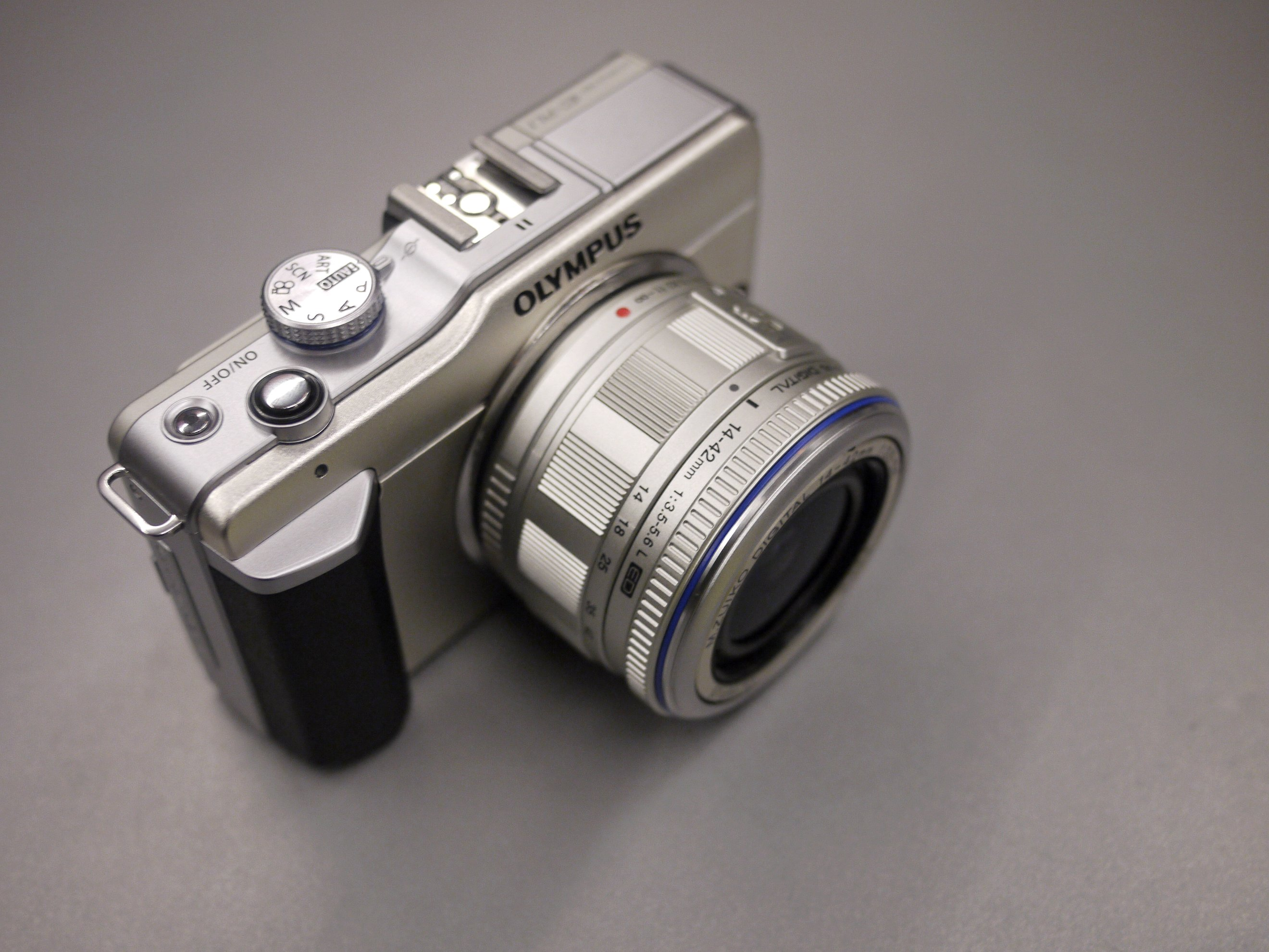 Olympus E-PL1 digital camera with 14–42 mm f/3.5–5.6 lens